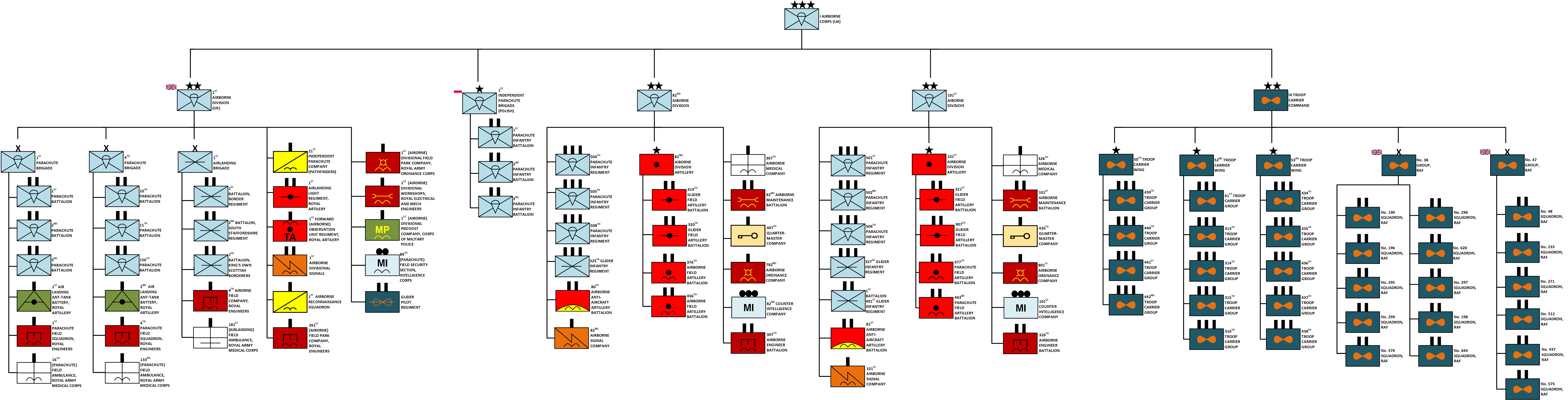 Organization of the British I Airborne Corps during Operation Market Garden in World War 2